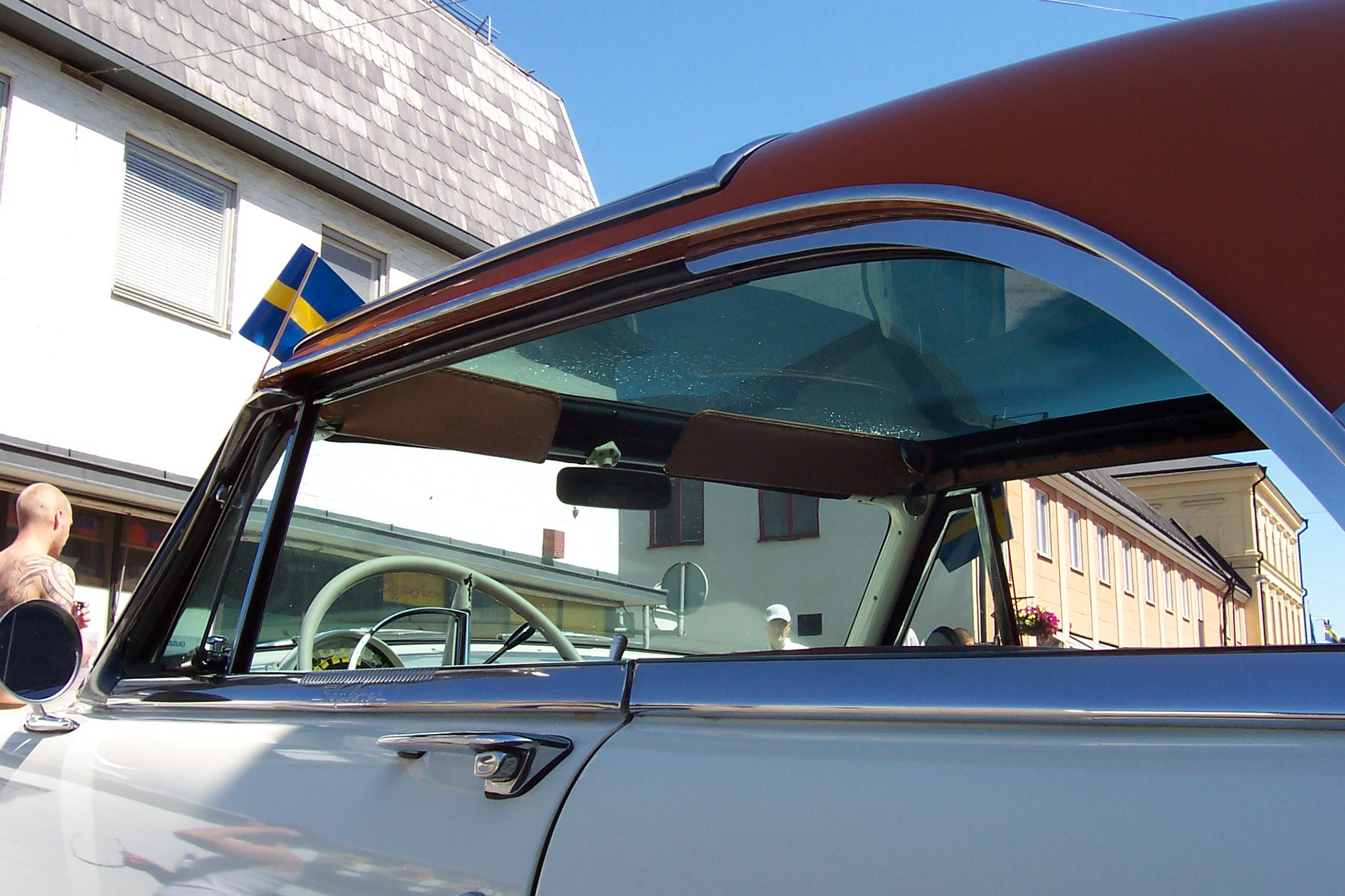 View trough the transparent plexiglass roof of a 1954 Ford Crestline Skyliner.